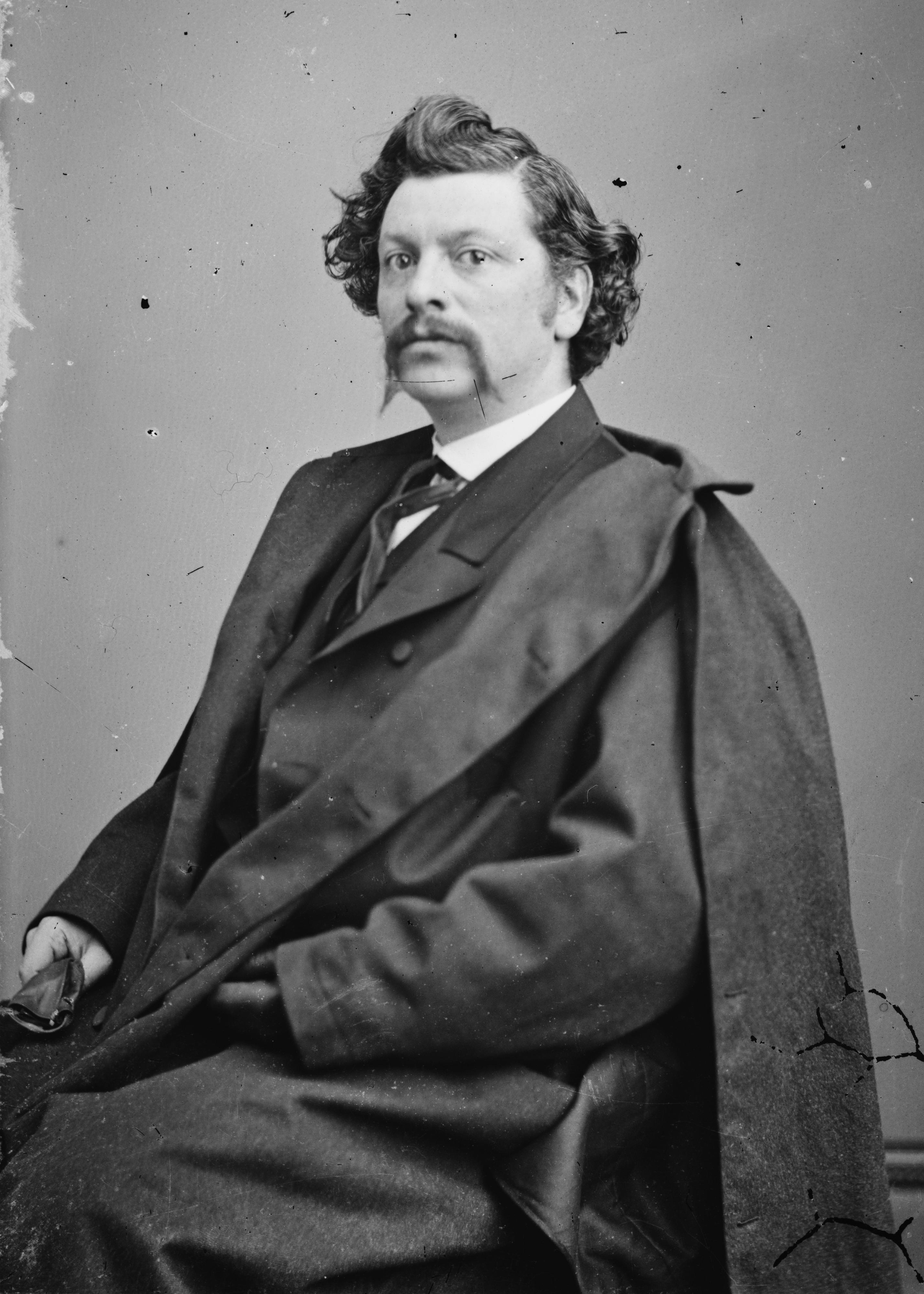 John Houston Savage. Library of Congress description: "J. H. Savage".